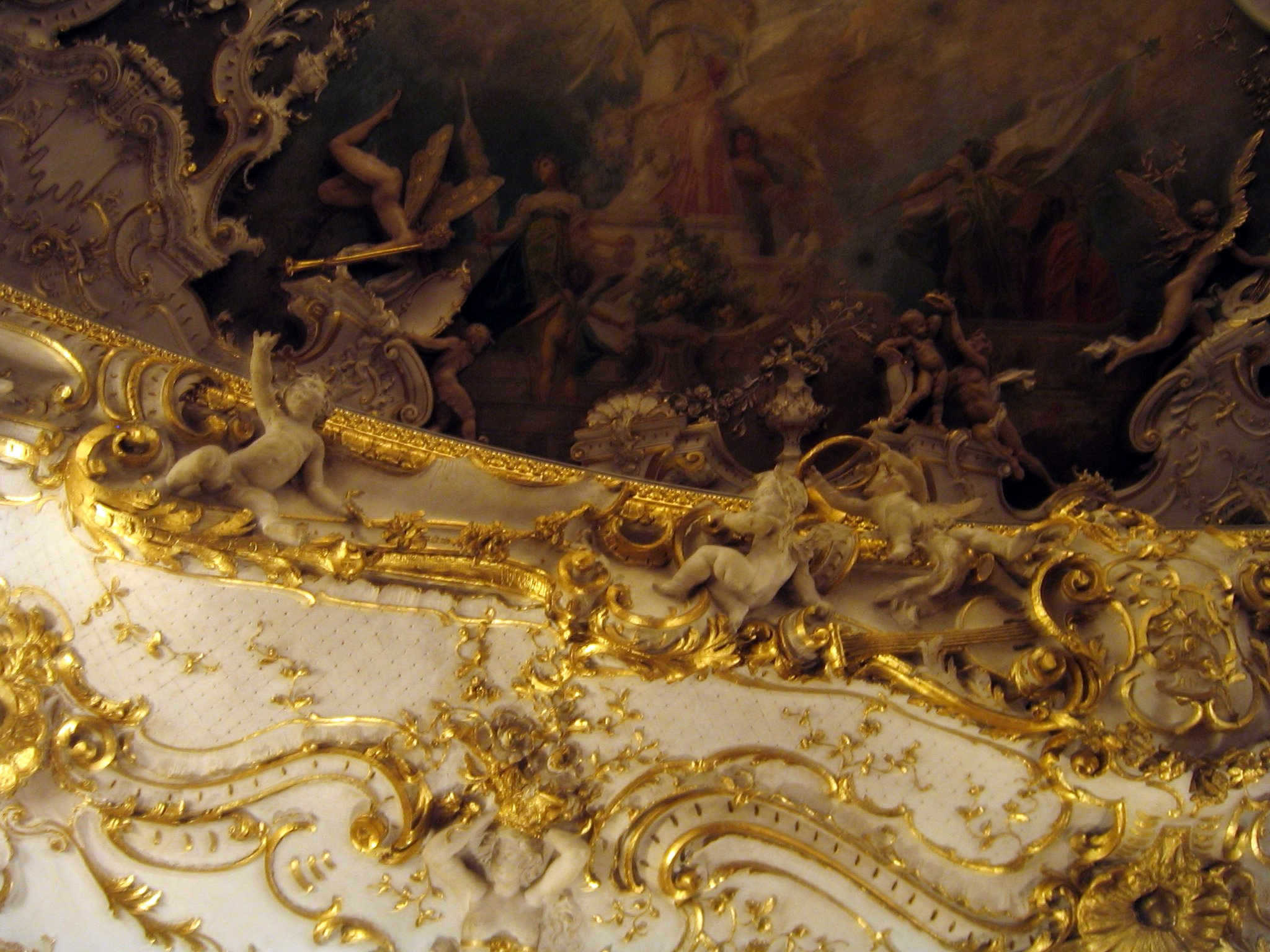 The ceiling inside the Opera in Prague 2005